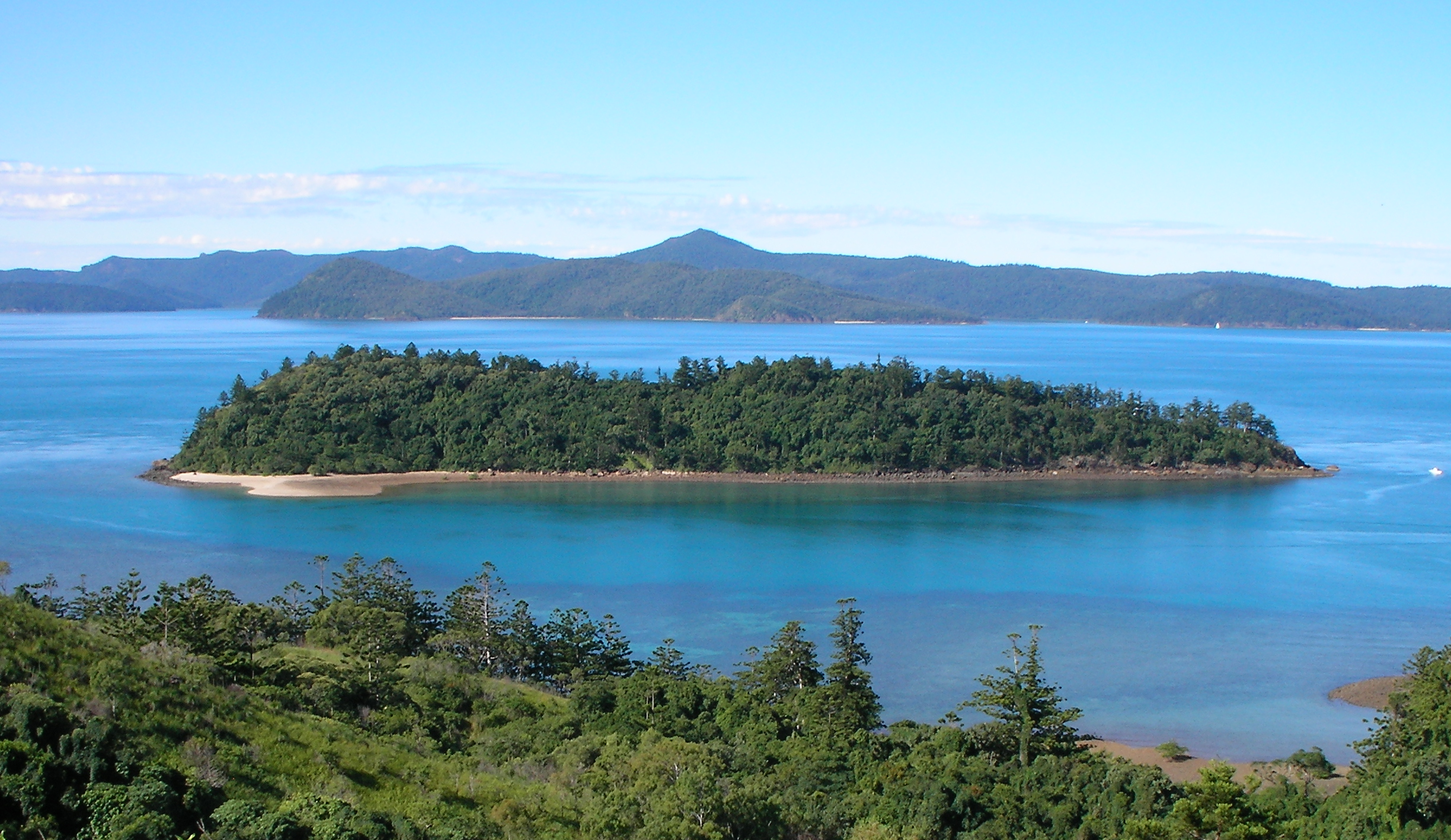 Looking due east at Planton Island from South Molle Island, Queensland, Australia.